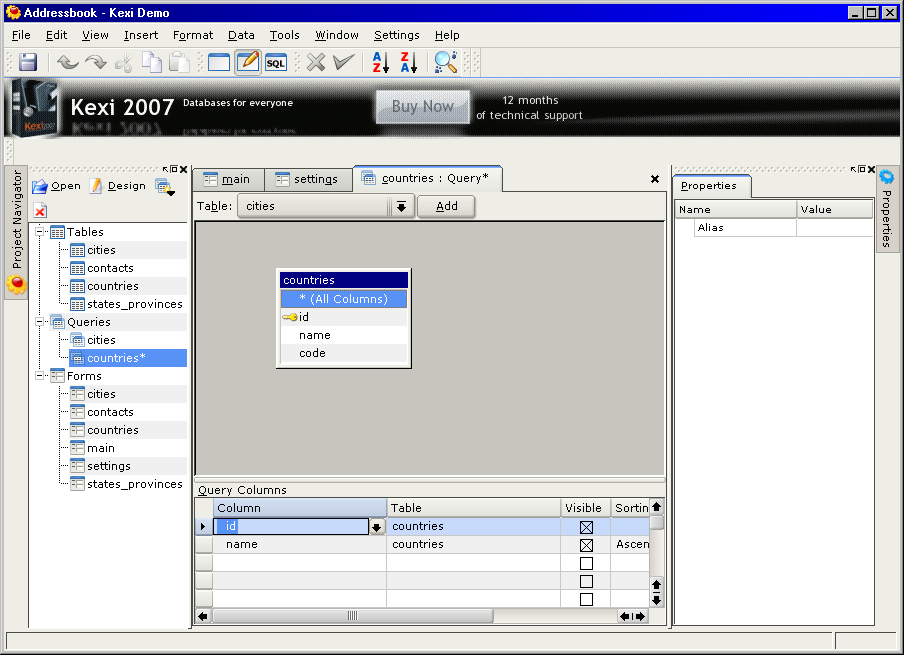 Kexi, Adressbook (Template, example database)